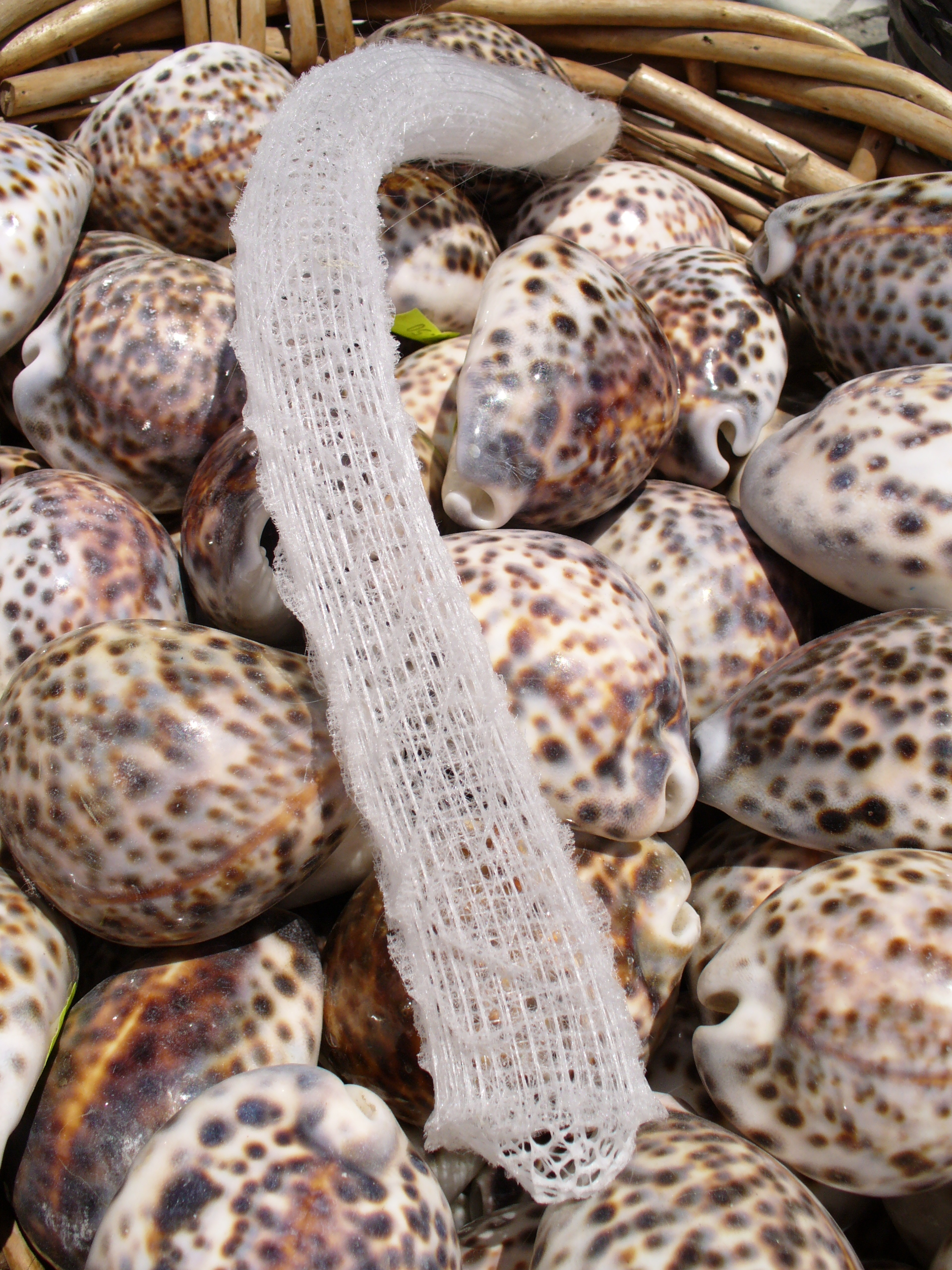 please help to categorize- respect the stress